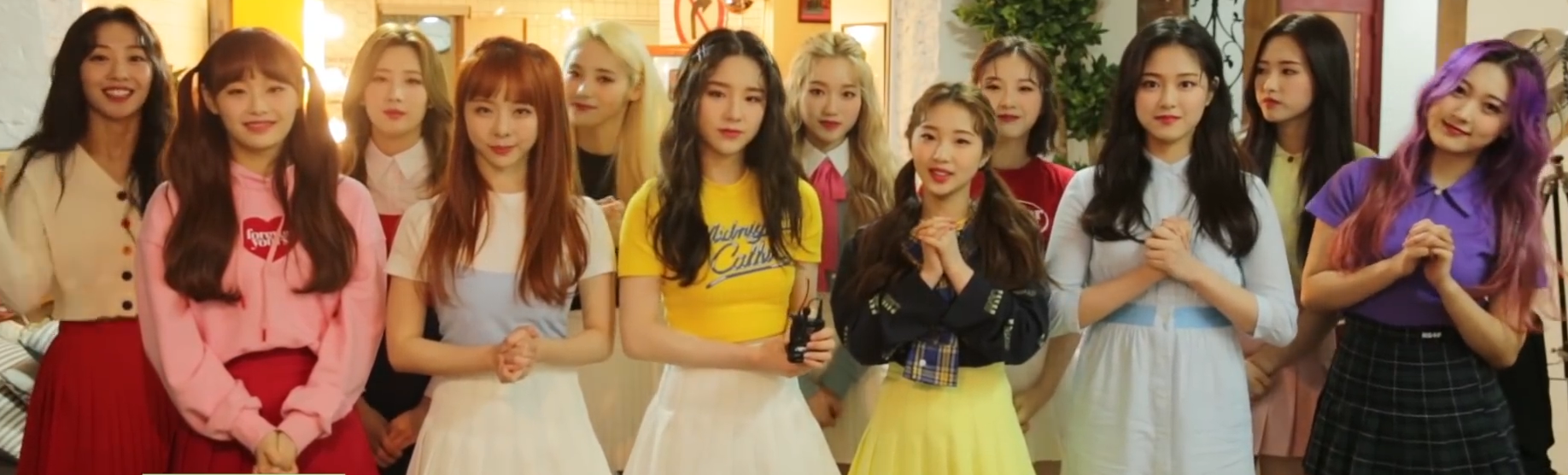 South Korean girl group Loona for TenAsia magazine, May 2019